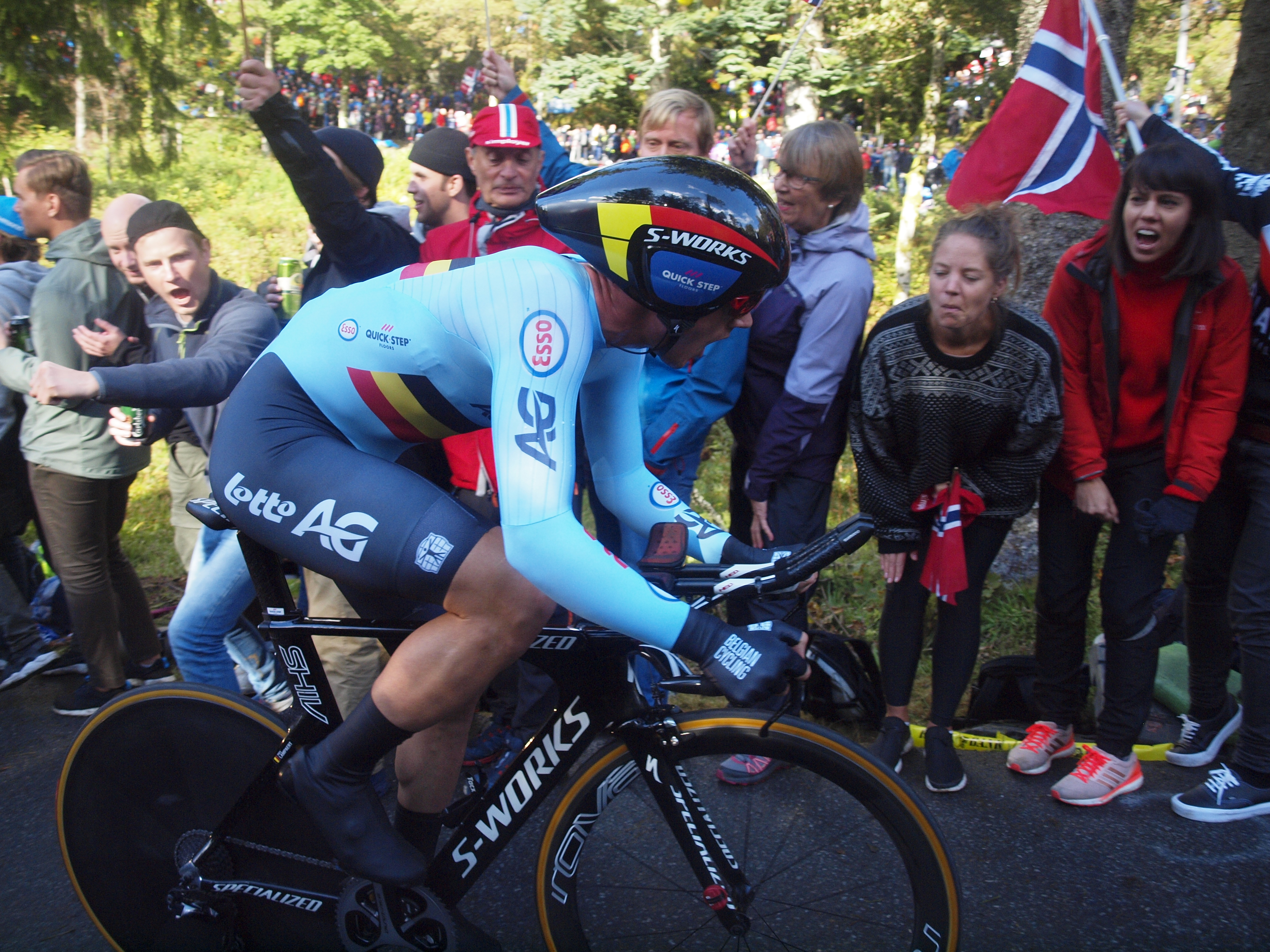 Yves Lampaert at the 2017 UCI World Championships